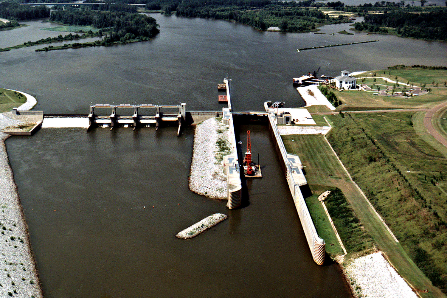 Aerial View of Tom Bevill Lock and Dam on the Tombigbee River near Pickensville in Pickens County, Alabama, USA. The lock and dam are a part of the Tennessee-Tombigbee Waterway, providing a navigation channel between the Tennessee River and the Tombigbee River. The dam impounds Aliceville Lake. View is upriver to the north-northwest. Coordinates: 33°12′38.6″N 88°17′16.26″W / 33.210722°N 88.28785°W